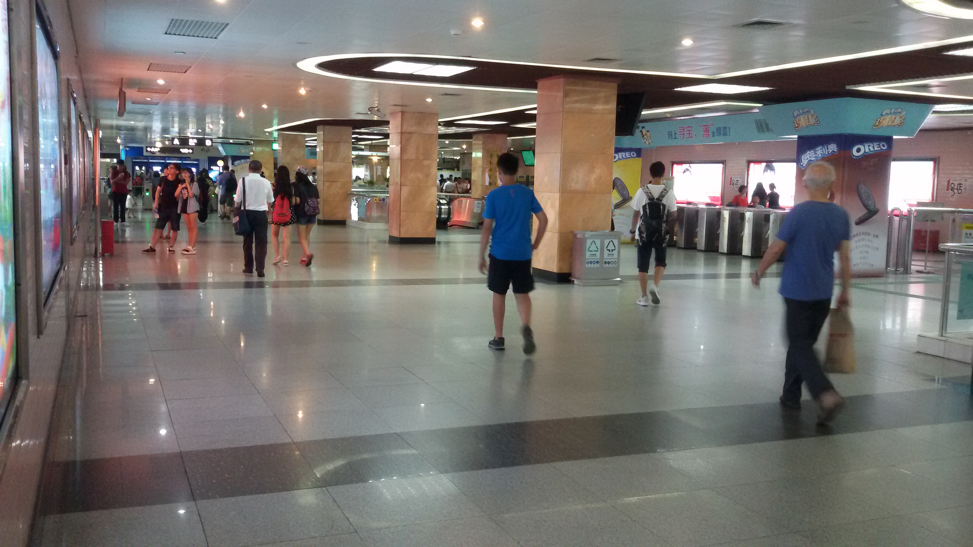 Station Concourse for Tianhe Sports Center Station, Guangzhou Metro.